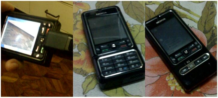 This is a composite picture of my Nokia 3250, in three images. The center is the phone itself, the left one is the phone in "camera mode," and the right image is the phone in "music player" mode. I used another camera phone, the Motorola V3x to take those images, and used Microsoft Paint to make the image above.